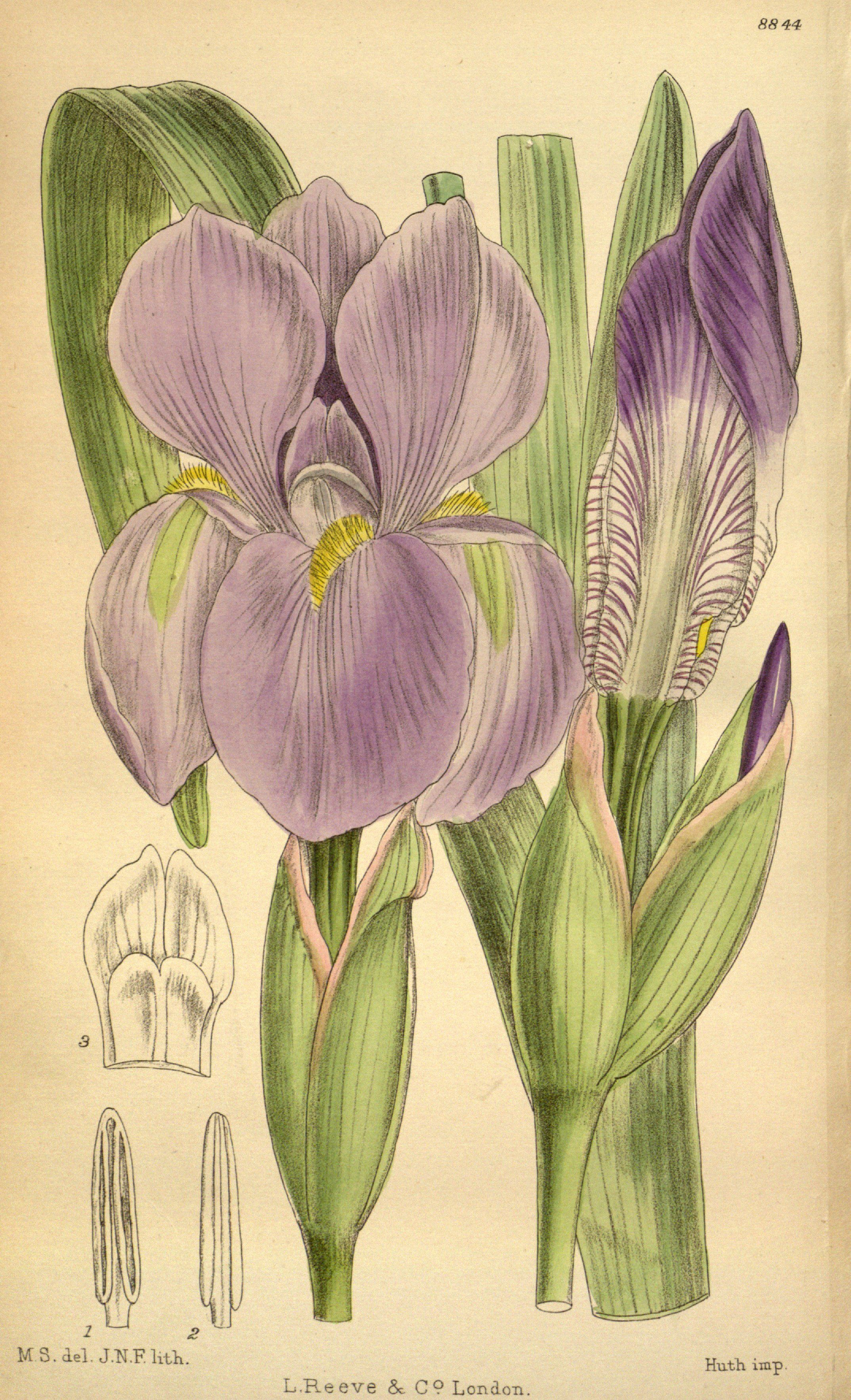 Iris hoogiana, Iridaceae